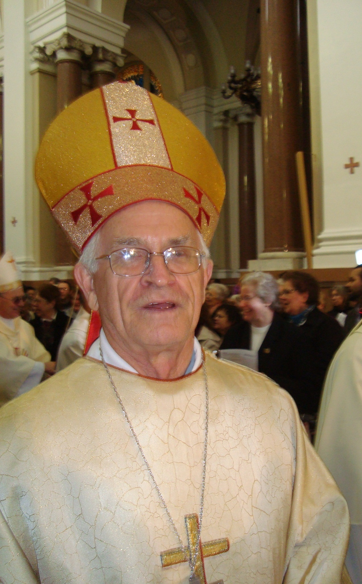 José Mário Stroeher, Catholic Bishop of Rio Grande, Brazil